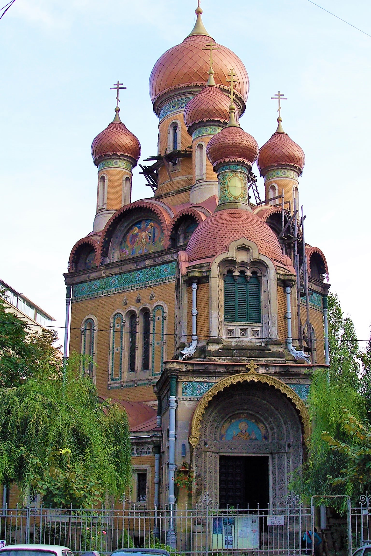 Biserica Sf. Nicolae, the Russian church in Bucharest